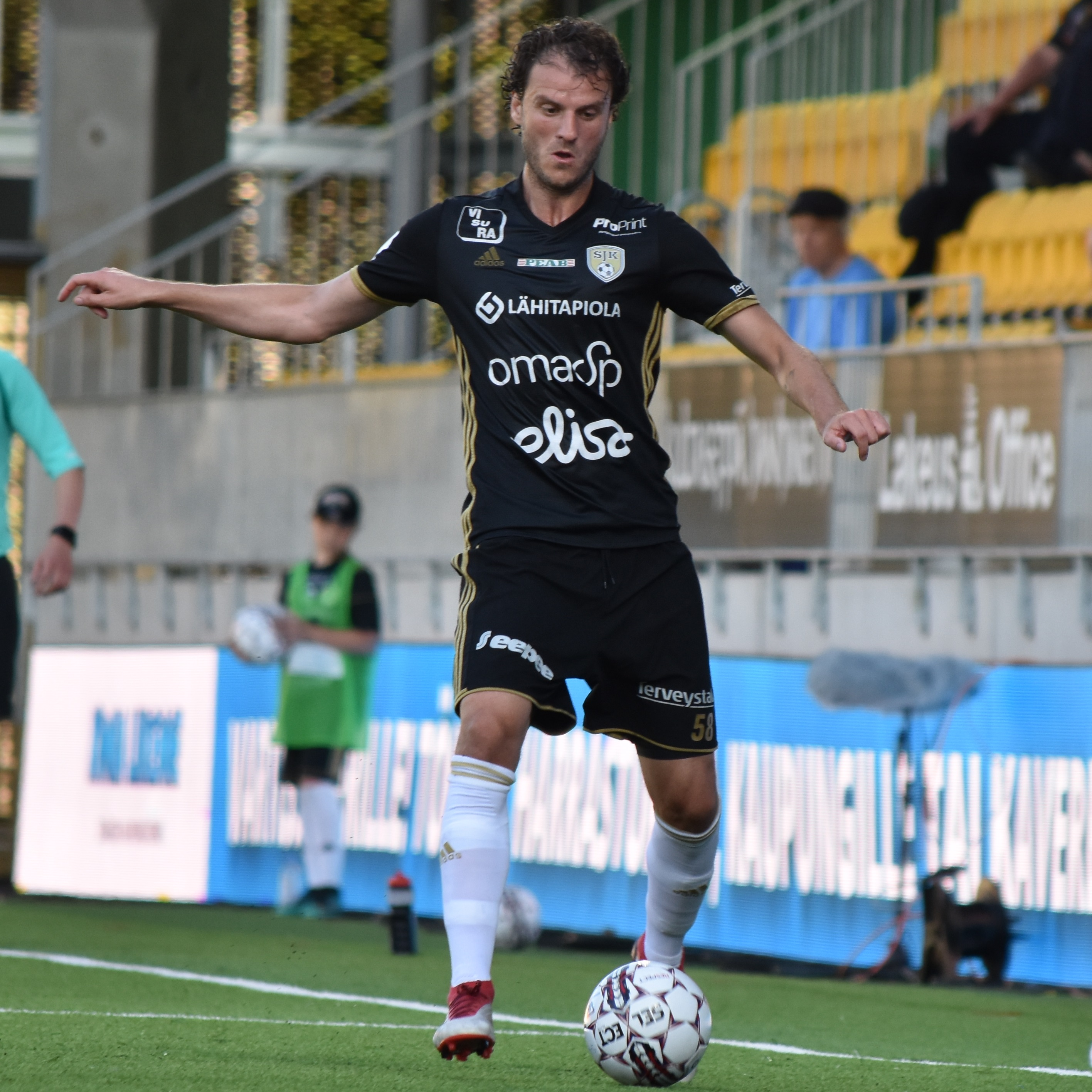 Association football player Mehmet Hetemaj (SJK)